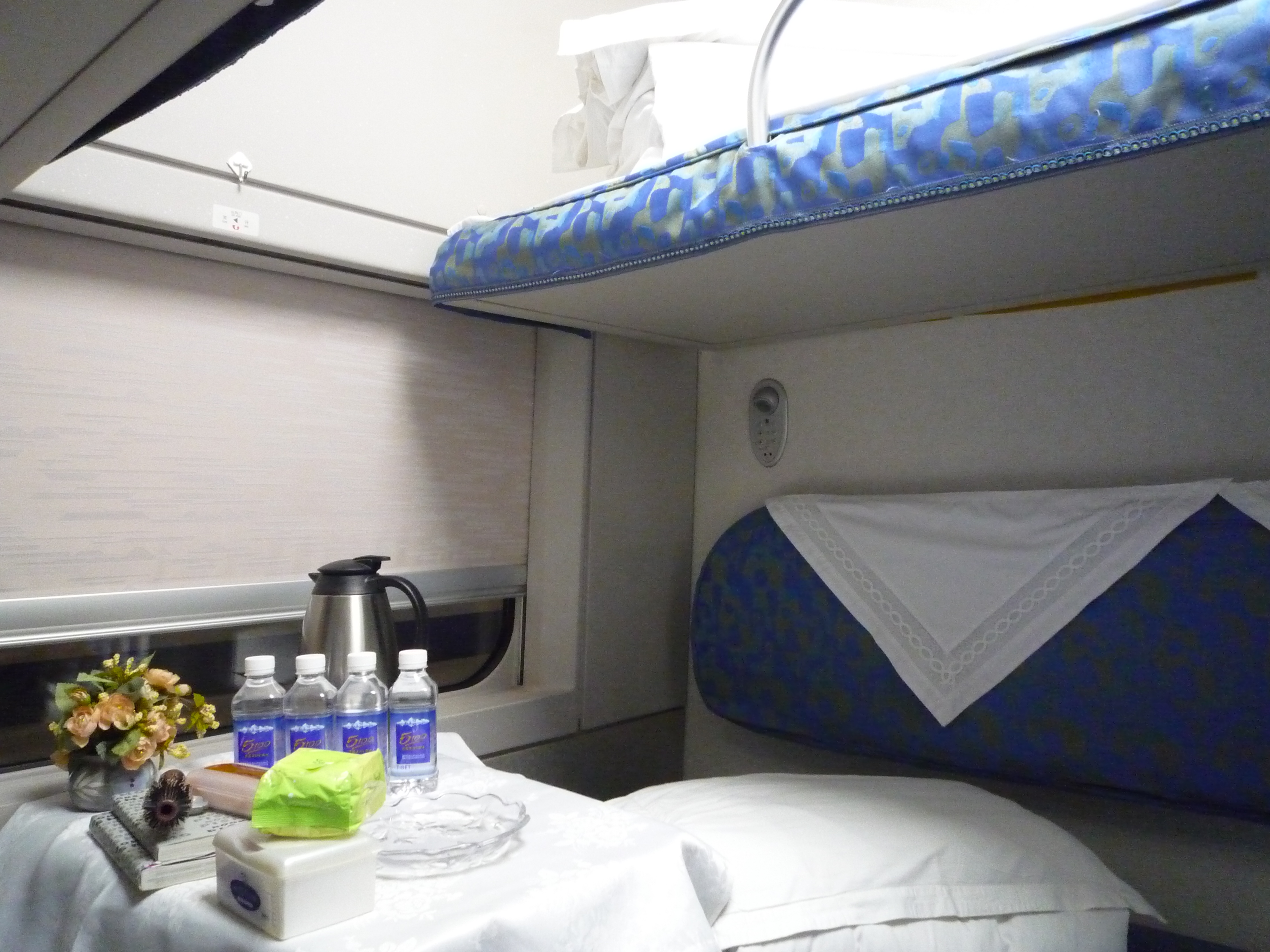 China Railway high-speed train CRH2 sleeping car interior.